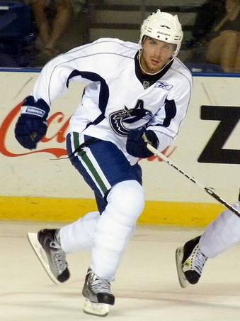 Vancouver Canucks forward Steve Bernier during training camp in 2009.